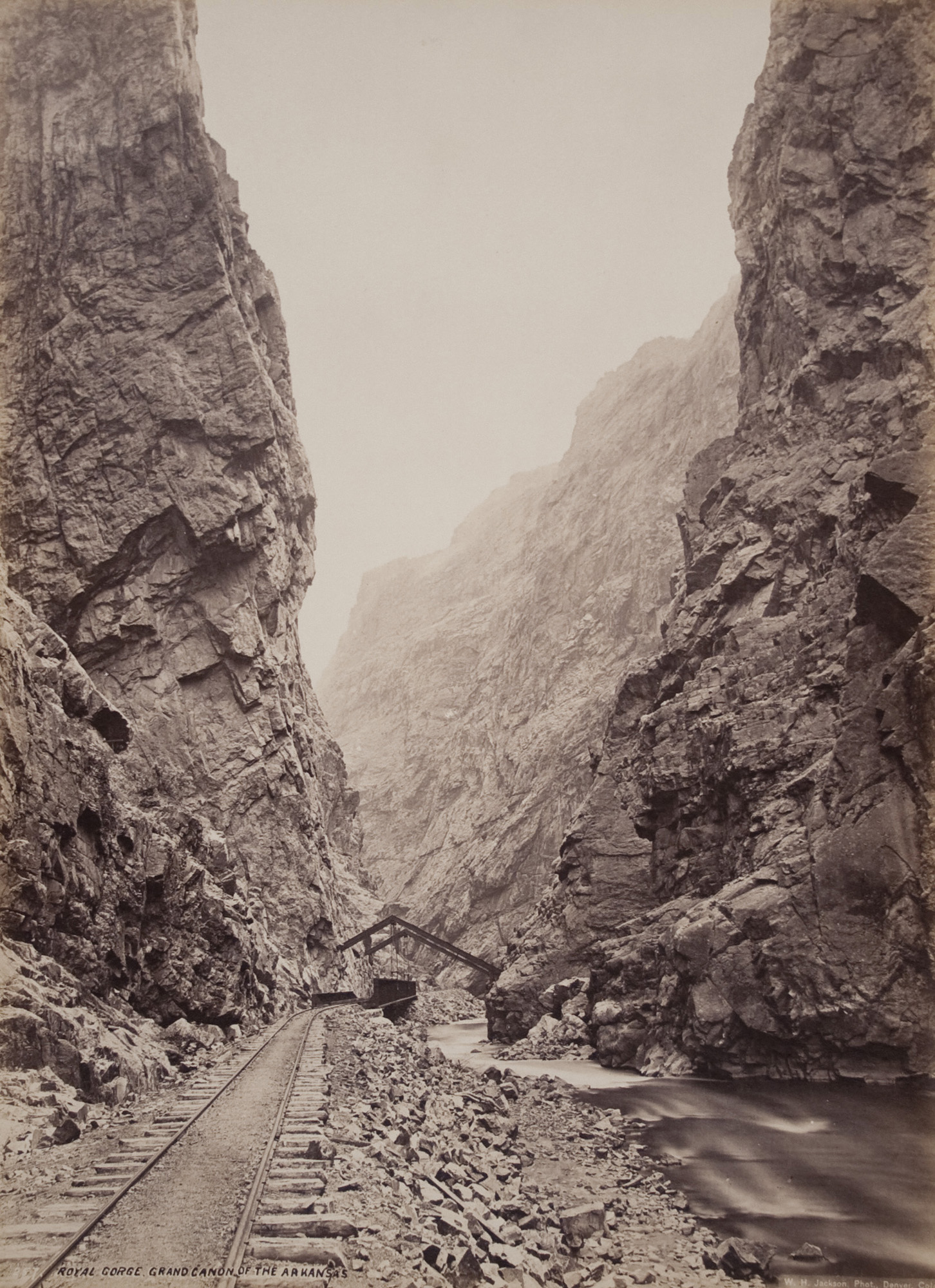 Artist: William Henry Jackson Artist Bio: American, 1843 - 1942 Creation Date: 1880s Process: albumen print Credit Line: Museum purchase with funds provided by MoPA Collectors Group Accession Number: 2003.008.002